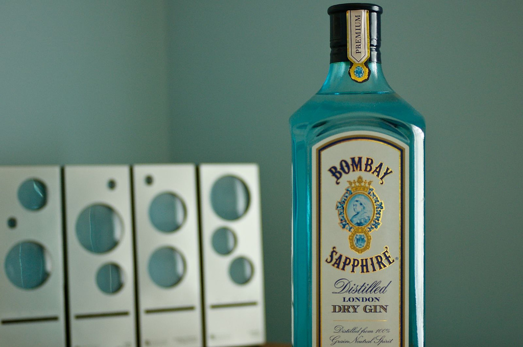 A wonderful leaving present from my team. Love the bottle design - almost as nice as the drink within